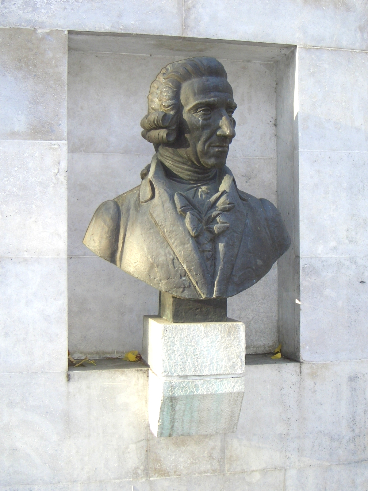 Statue of Haydn in Budapest, 1st district, work of András KOCSIS, 1959.